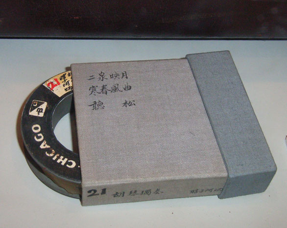 钢丝录音带 A kind of audio storage medium. This is a reel of a Webster-Chicago Wire recorder[1].